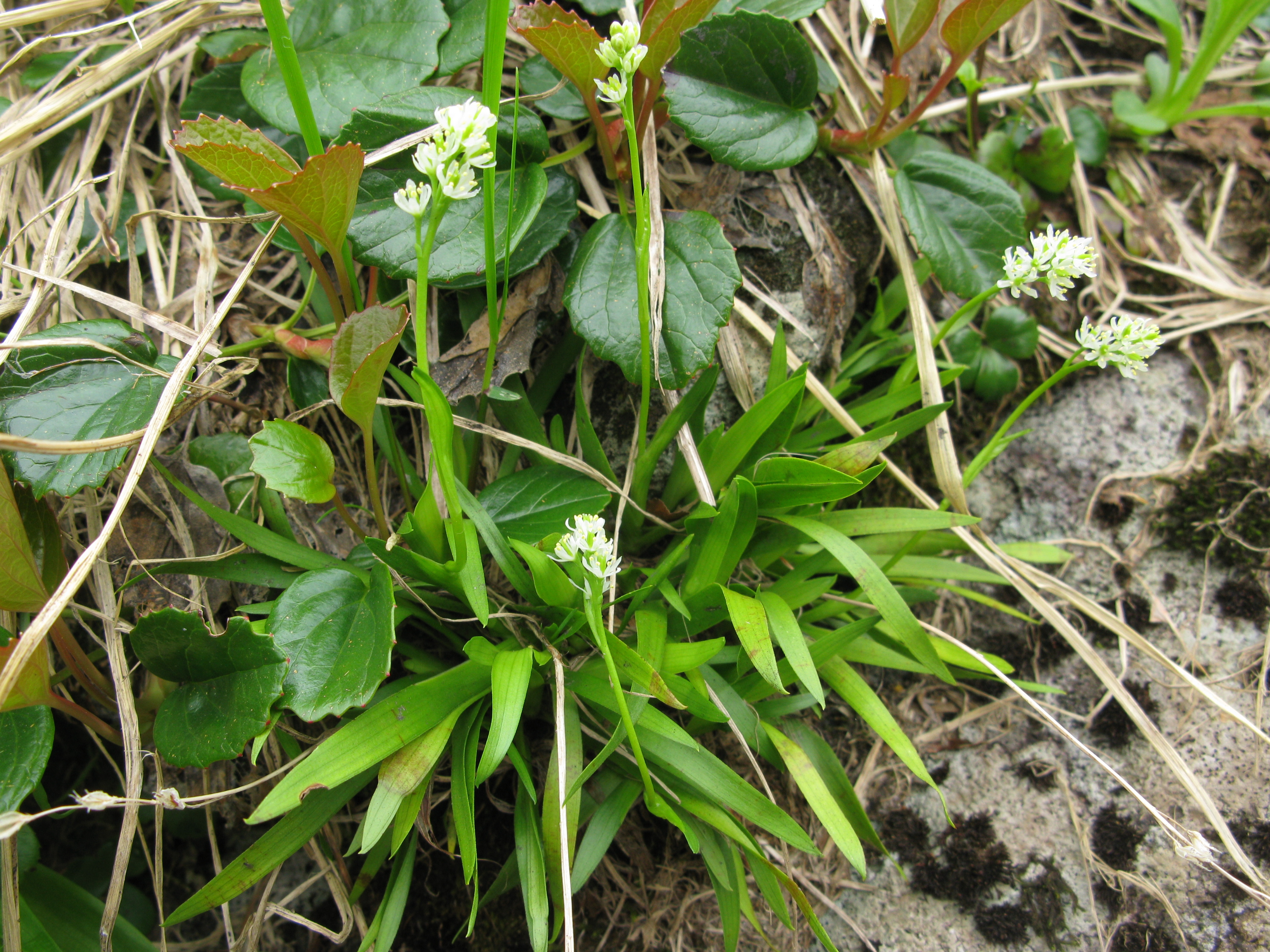 Tofieldia okuboi, Mount Gassan, Yamagata pref., Japan